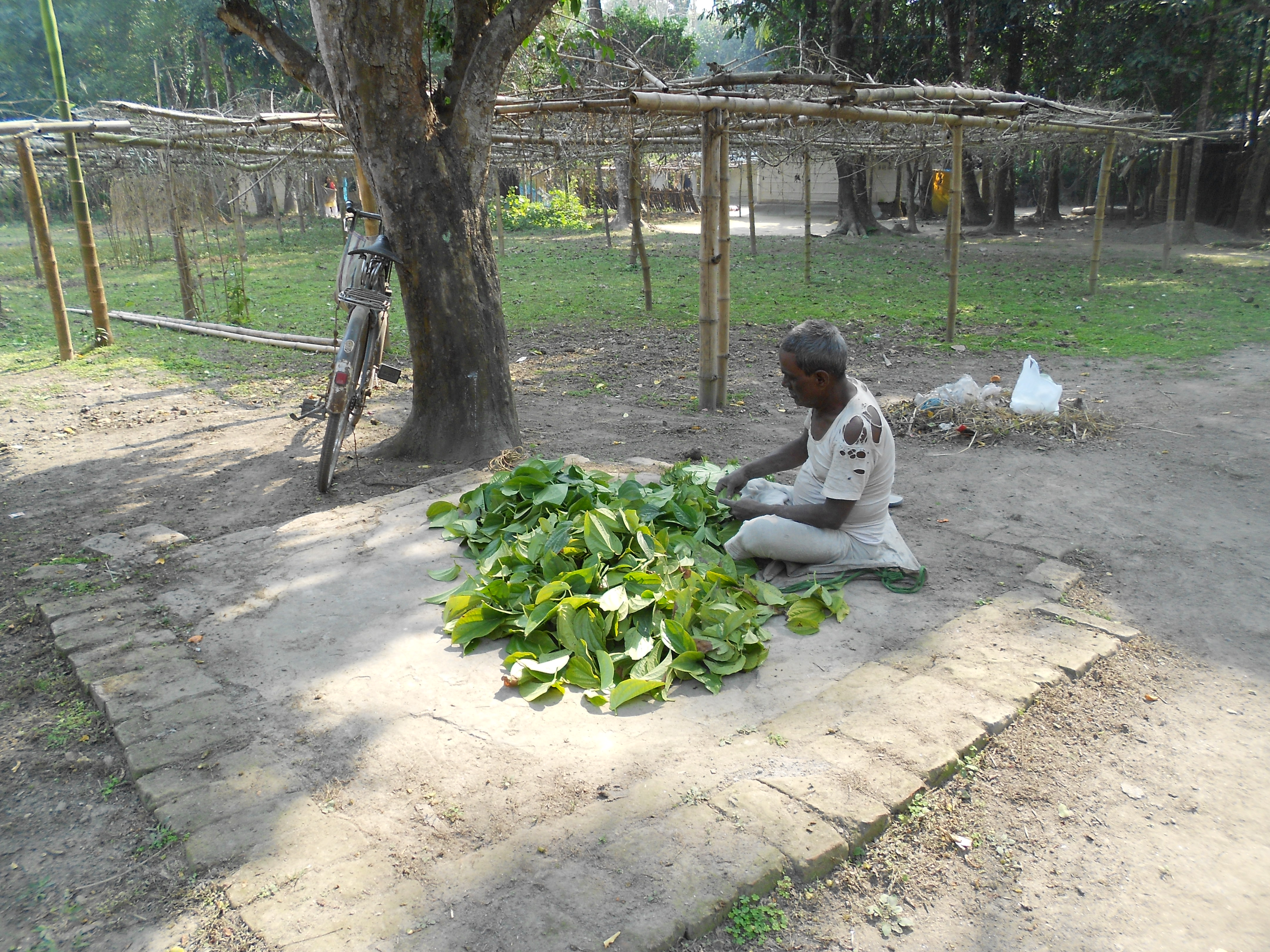 a farmer is triming raw betel leaves